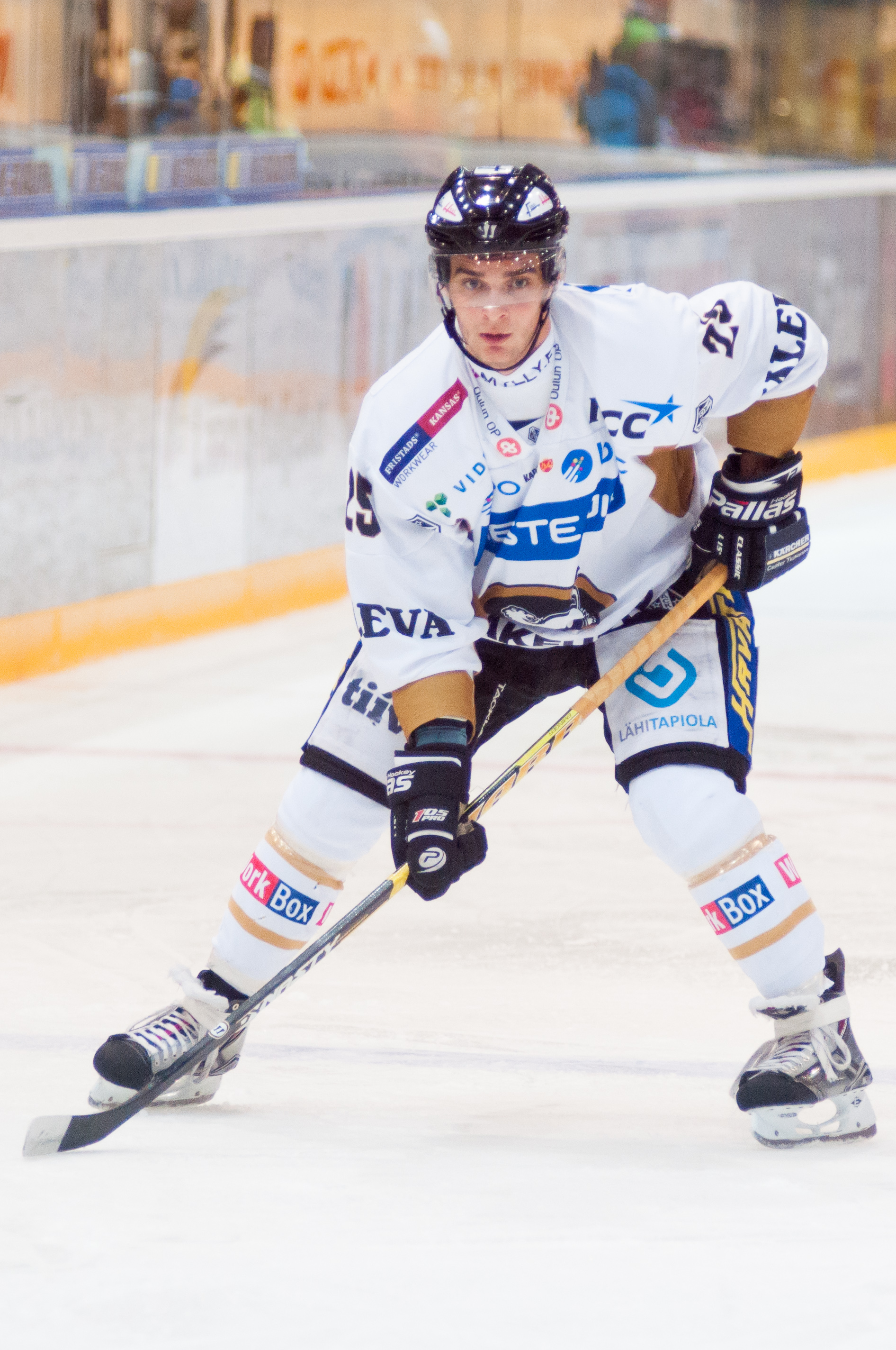 Vladimir Eminger of Oulun Kärpät playing against SaiPa Lappeenranta in Lappeenranta, Finland.